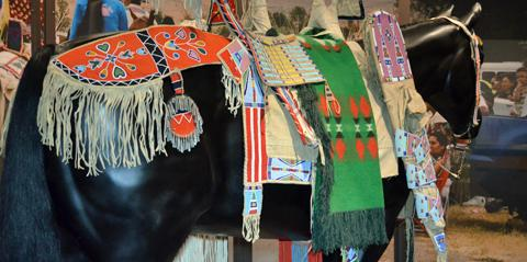 A model of how the Crow people dressed their horses in the 1880s is on display at the Museum of the American Indian. Note the beaded cradleboard for carrying an infant.